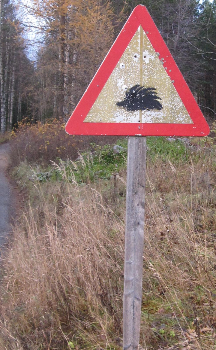 Improvised hedgehog warning sign. Kokkokangas, Kempele, Finland